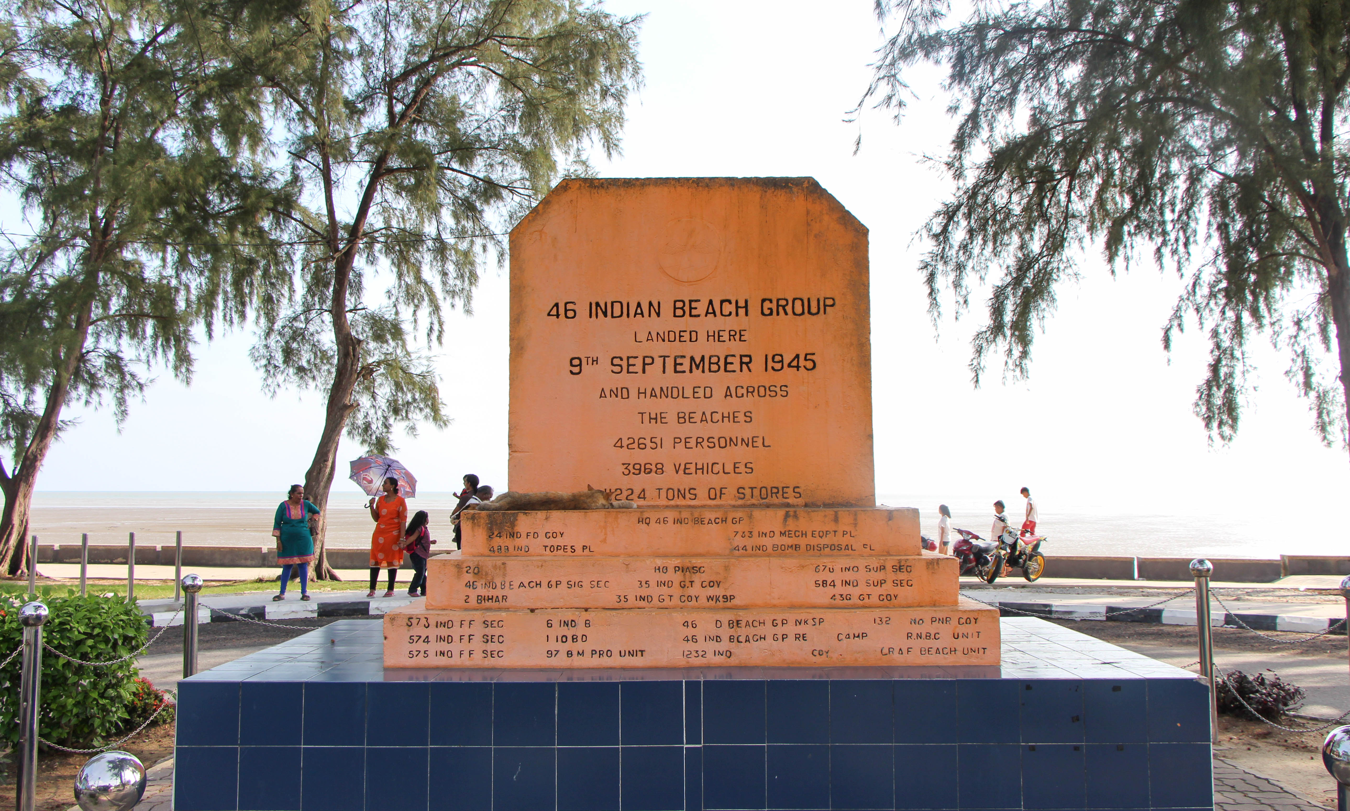 Morib Beach has a very forgotten past which never been mentioned in recent Malaysian history education books, it was the place where Indian Beach Group 46 landed. The Royal Air Force commander unit 3210 or South East Asia Squadron 7 involved in Operation Zipper, was originally to counter attack Japanese force in Malaya Peninsular (very similar to D-day tactics) but since Japan had surrendered few days ago (2 Sept 1945), the landing was successful but the troops were disbanded only in 5 weeks without any significant operation met. Now the beach is relax spot for locals and visiting place for tourists. Sources